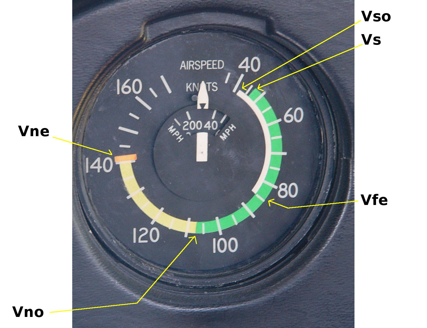 Airspeed indicator showing airspeed in knots, with V speed markings forː VS0 - Velocity Stall 0 VS - Velocity of the Stall VFE - Velocity with Flaps Extended VNO - Velocity of Normal Operations VNE - Velocity that Never should be Exceeded There is also small window showing the current airspeed in mph, but with no indication of any V speeds.